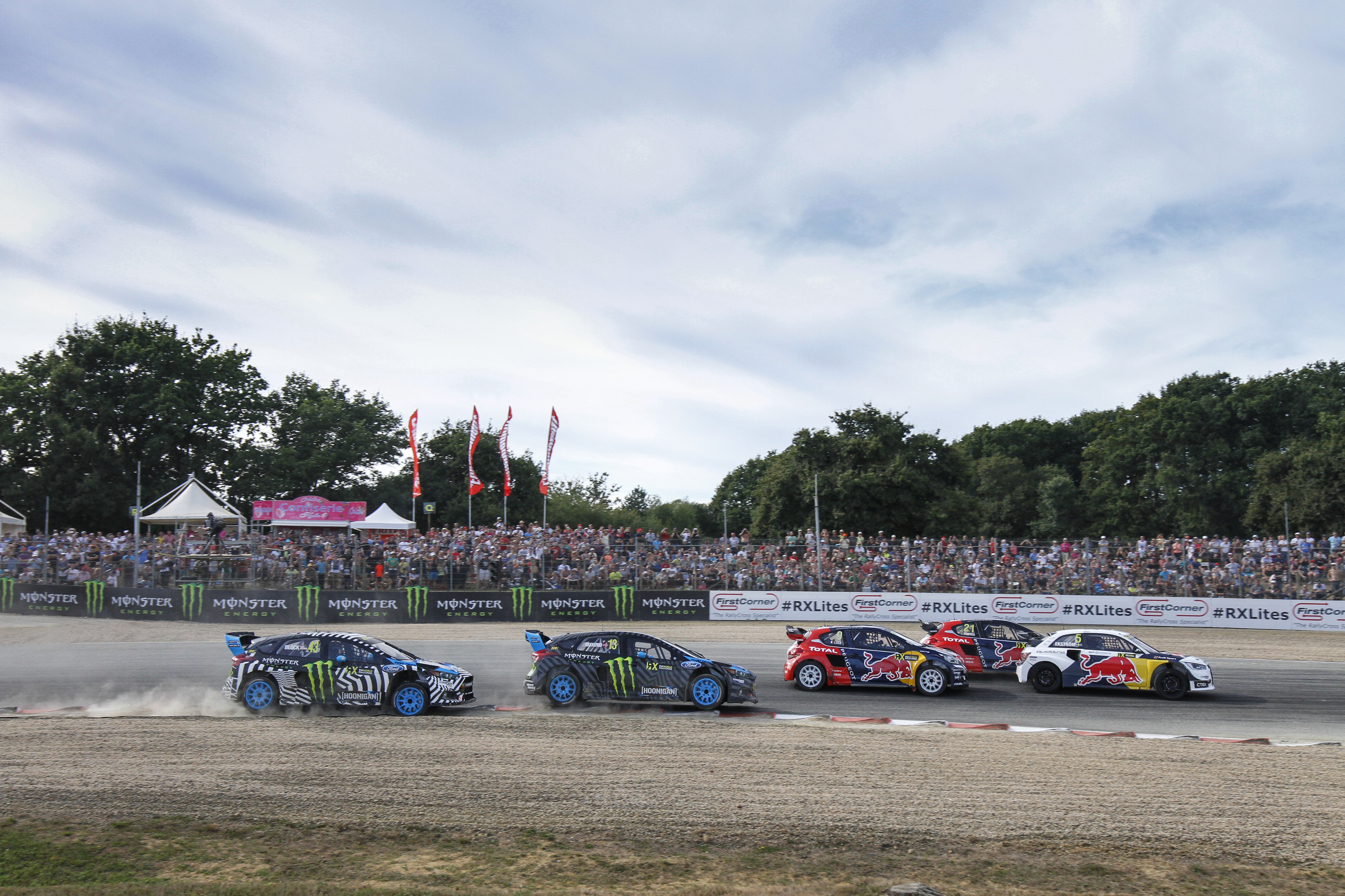 2016 FIA World RX Rallycross Championship / Round 08, Loheac, France, September 2-4 2016 // Worldwide Copyright:Tony Welam/EKS/McKlein